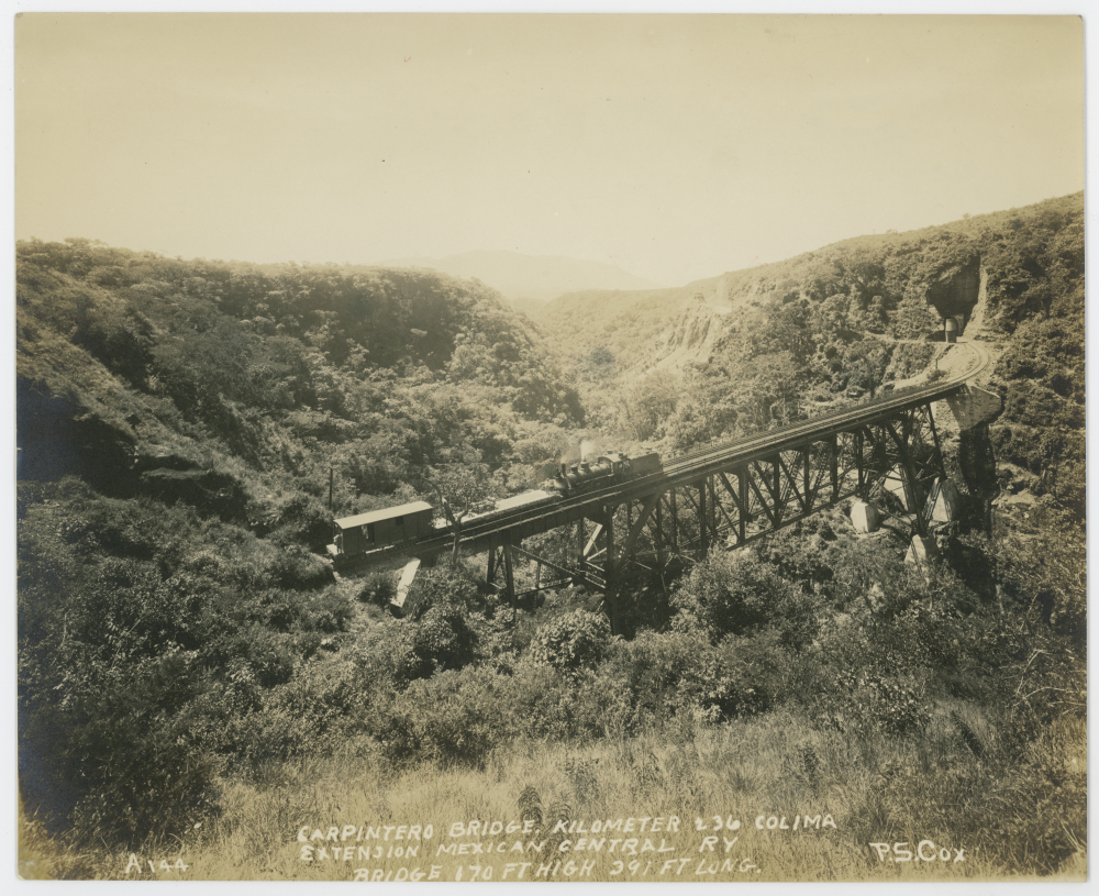 Title: Carpintero Bridge. Kilometer 236 Colima Creator: Cox, Percy S., ca. 1872-1911 Date: ca.1899 - ca. 1909 Part of: of Mexico/mode/exact Place: Colima, Mexico Physical Description: 1 photographic print: gelatin silver; 19 x 24 cm File: ag1985_0366_44_carpintero_r_opt.jpg Rights: Please cite DeGolyer Library, Southern Methodist University when using this file. A high-resolution version of this file may be obtained for a fee. For details see the web page. For other information, . For more information and to view the image in high resolution, View the rel=